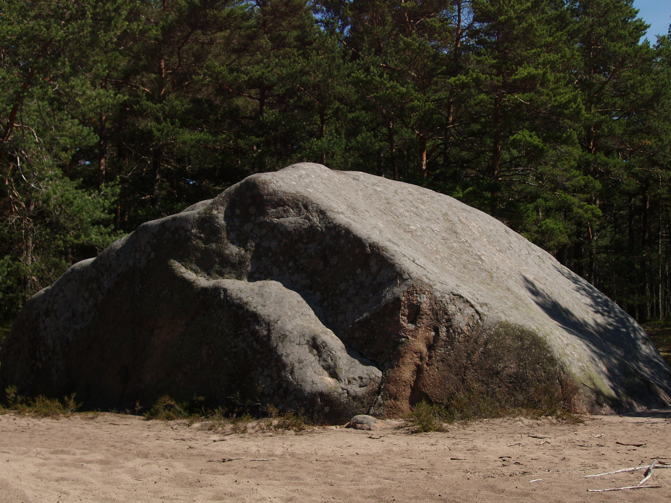 Punane kivi (Red rock) at island Prangli in Estonia.